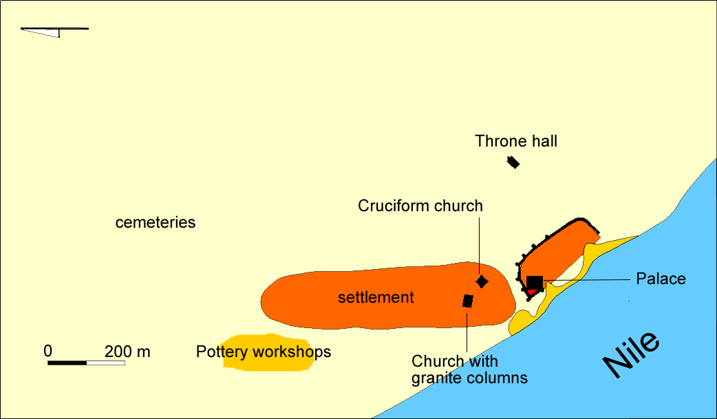 Plan of Old Dongola (Nubia)